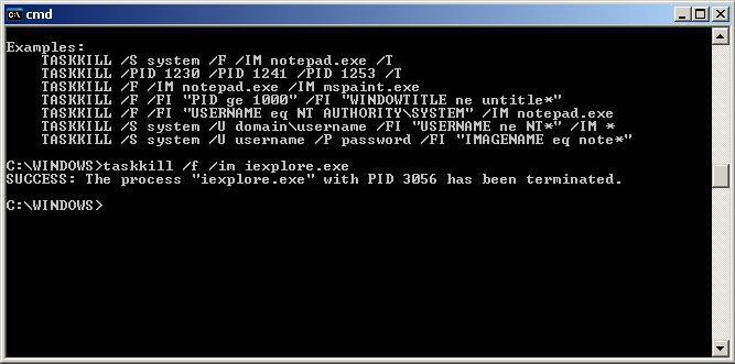 Taskkill on Prompt Command